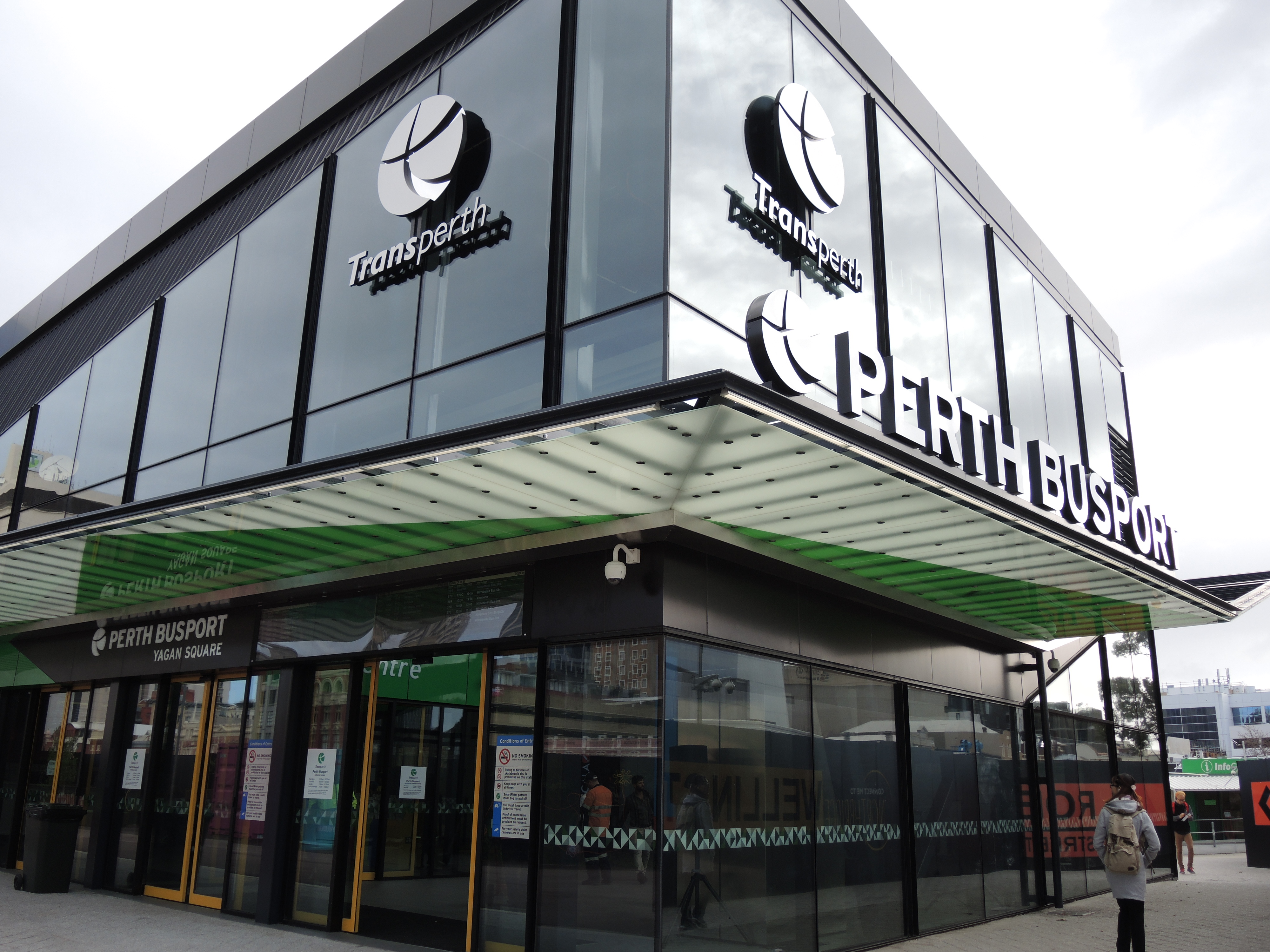 Perth Busport. Yagan Square entrance.